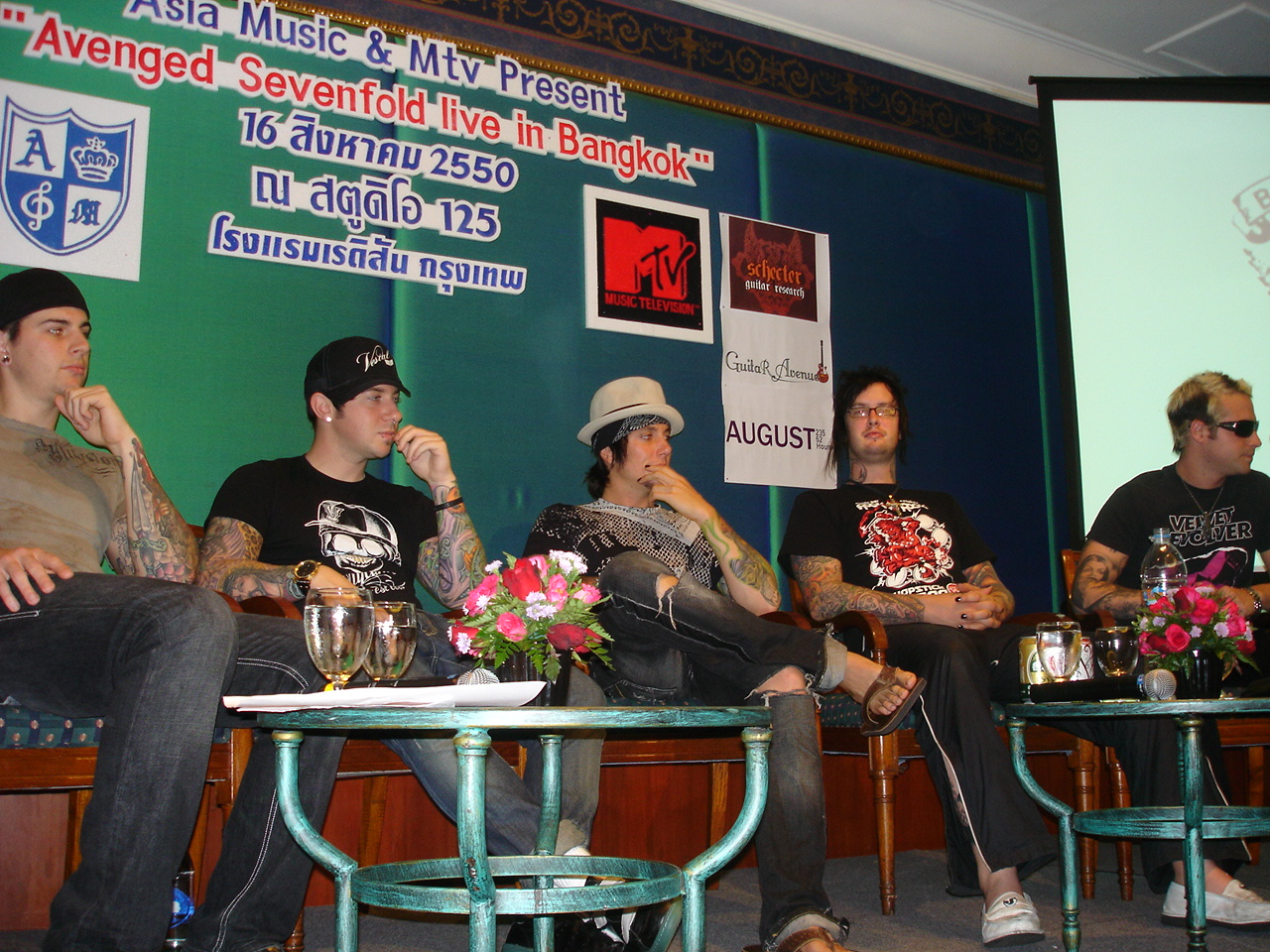 Avenged Sevenfold in Bangkok, Thailand